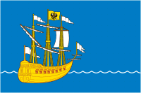 Lodeinoe Pole (Leningrad oblast), flag